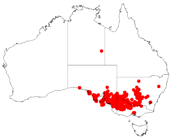 Acacia brachybotrya Occurrence data from Australasia Virtual Herbarium downloaded from on 8 December 2018